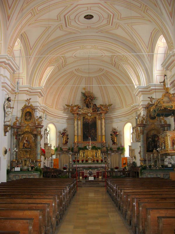 Gmund am Tegernsee, interior view of St Giles' Parish Church facing north-east.